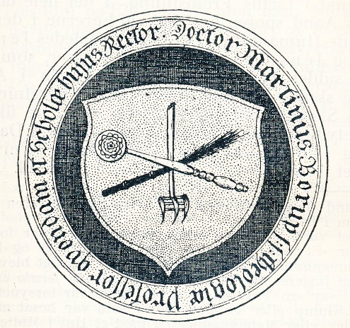 The crest of Danish educator Morten Børup (1446–1526) copied from his tombstone. Uploaded from Skanderborg Leksikon where the file was created by Leif Juul Pedersen on 30 May 2012